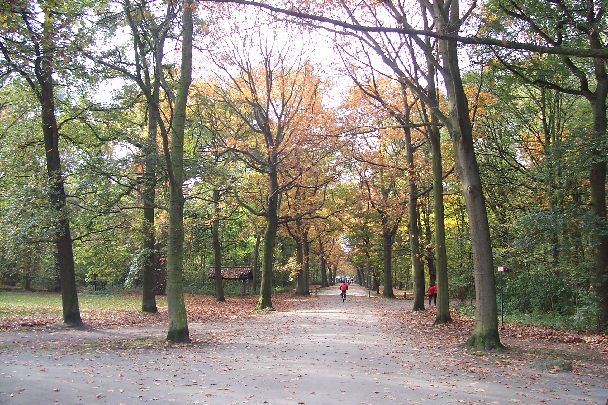 Nachtegalenpark